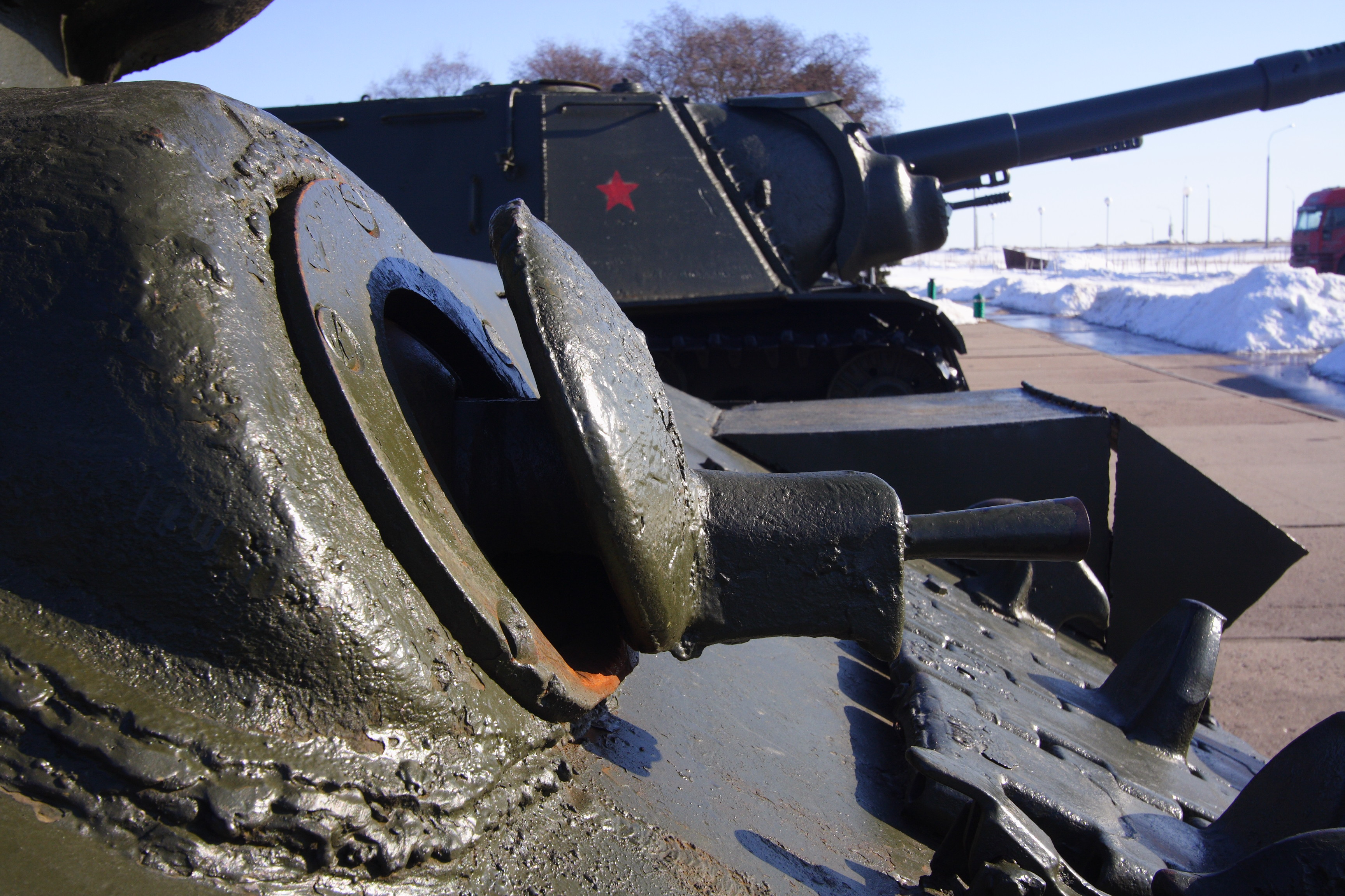 DT-29 7,62 mm machinegun in front of T-34-85 at Mound of Glory.